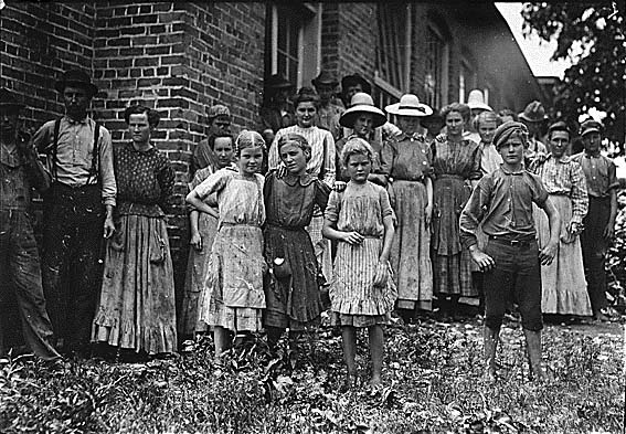 Original description: Force working in West Point Cotton Mills. West Point, Miss., 05/12/1911. Photographed by Lewis Hine.